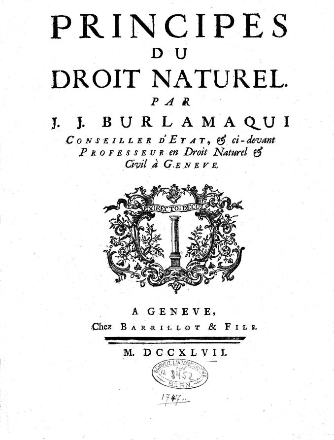 Frontispiece of Jean-Jacques Burlamaqui's Principes du droit naturel, Geneva, 1747.